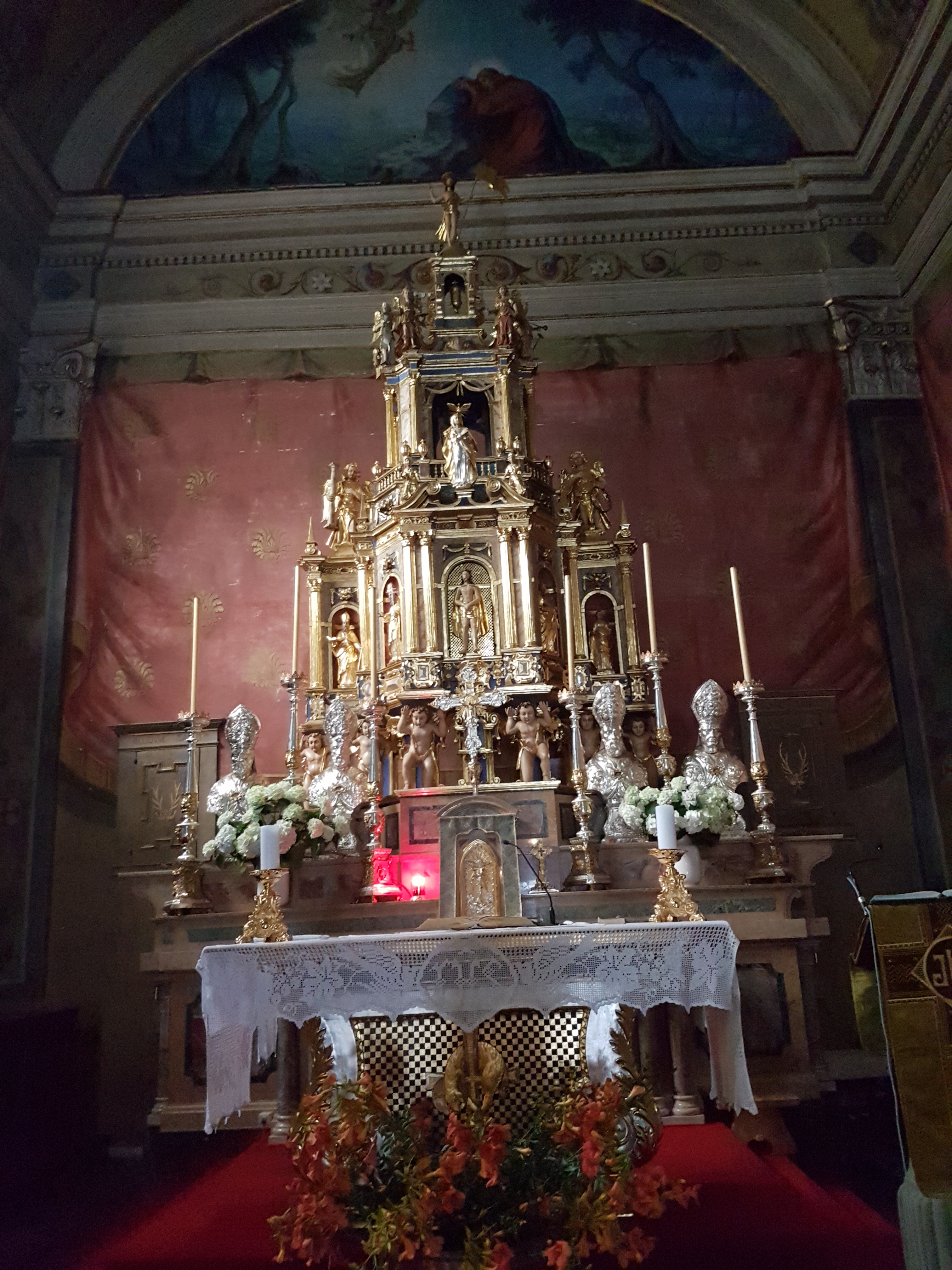 Brusio is a municipality and a circle of the canton of Grisons, Switzerland. Catholic Church hl. Charles Borromeo in Brusio.